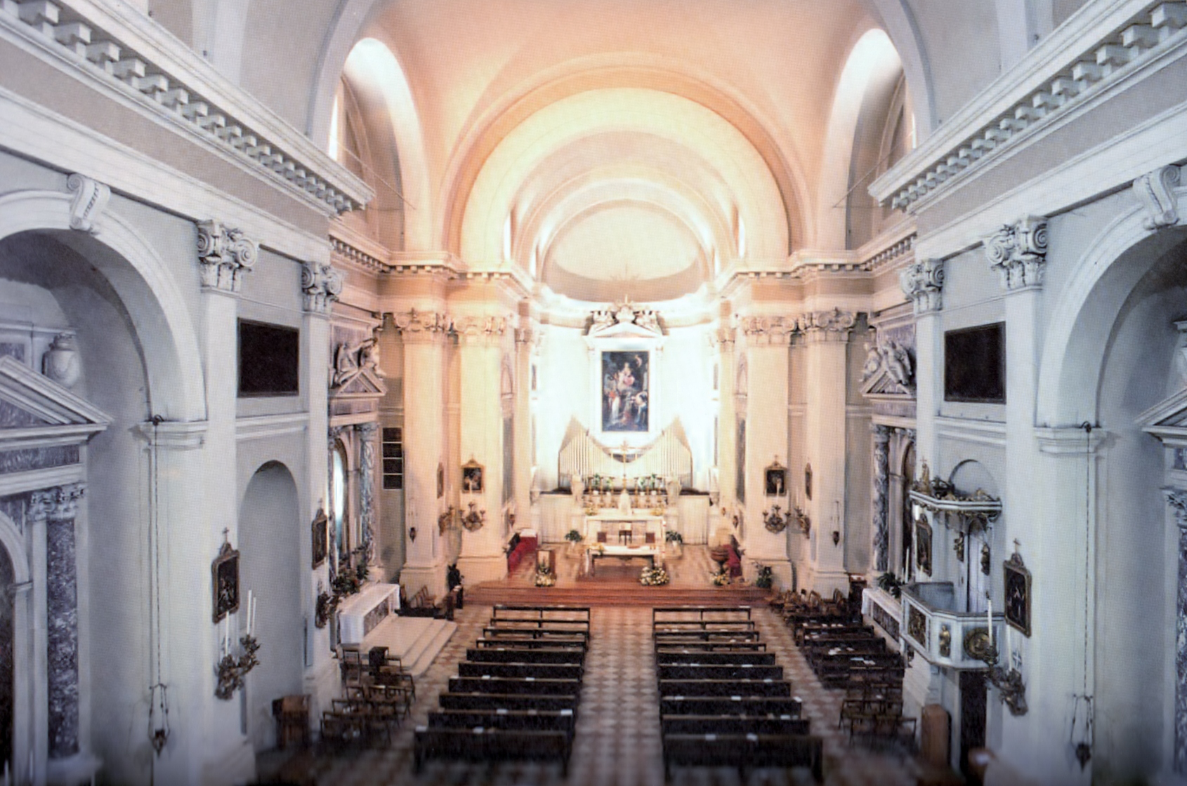 inside